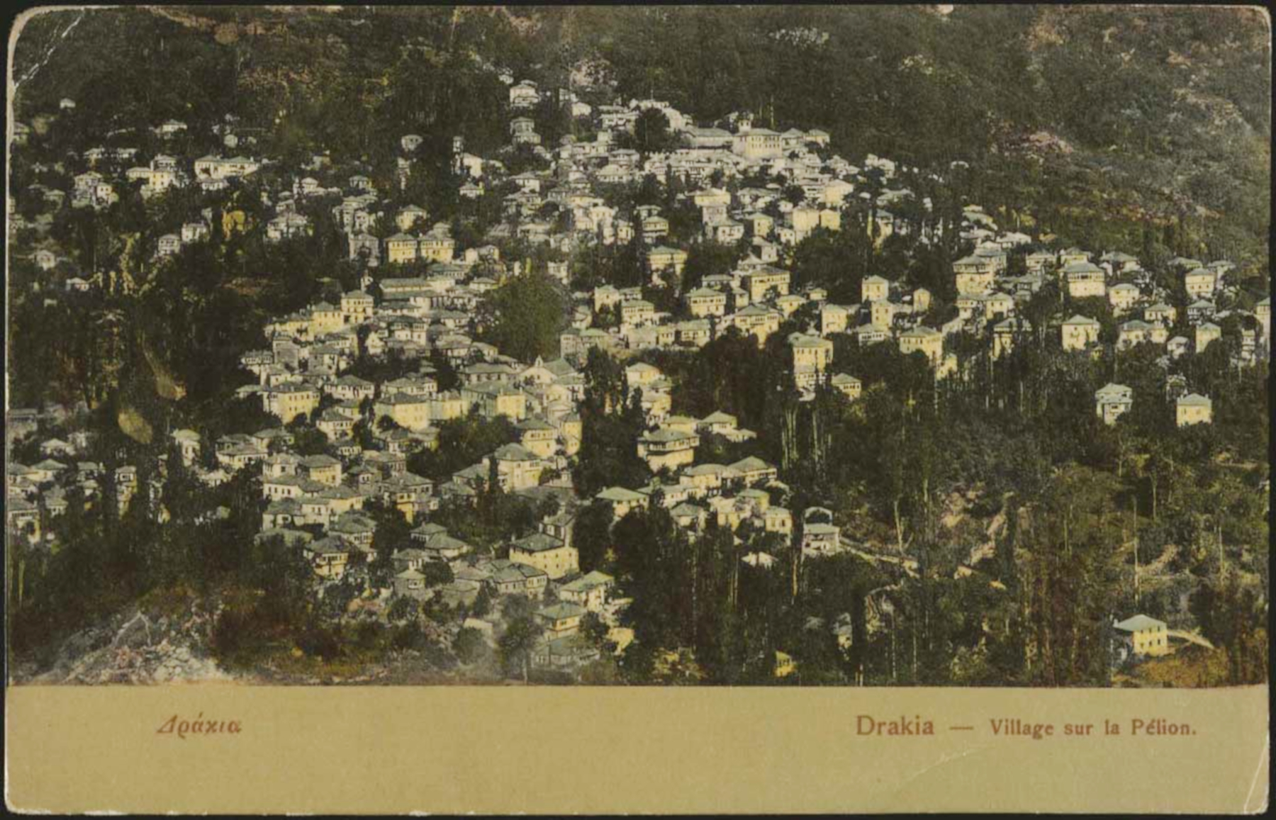 The village Drakia on Mount Pilion, Greece, circa 1900. Coloured b&w postal card.